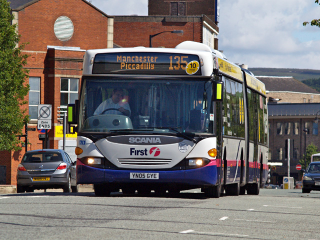 First Manchester Limited 12007 YN05 GYE, a Scania N94UA built 2005 with a Scania ‘OmniCity’ AB58D body on Knowsley Street, Bury on a Bury Interchange to Manchester Piccadilly Gardens via Whitefield, Heaton Park and Cheetham Hill 135 service. Sunday 29th July 2007